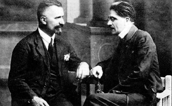 Saša Šantel and Rudolf Franjin Magjer